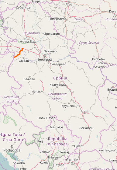 OpenStreetMap of State Road 20 in Serbia.